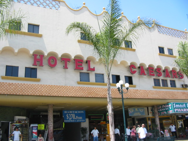 Hotel Caesar's in Tijuana, built in 1929 or 1930 for Caesar Cardini, who is commonly credited for inventing Caesar salad.